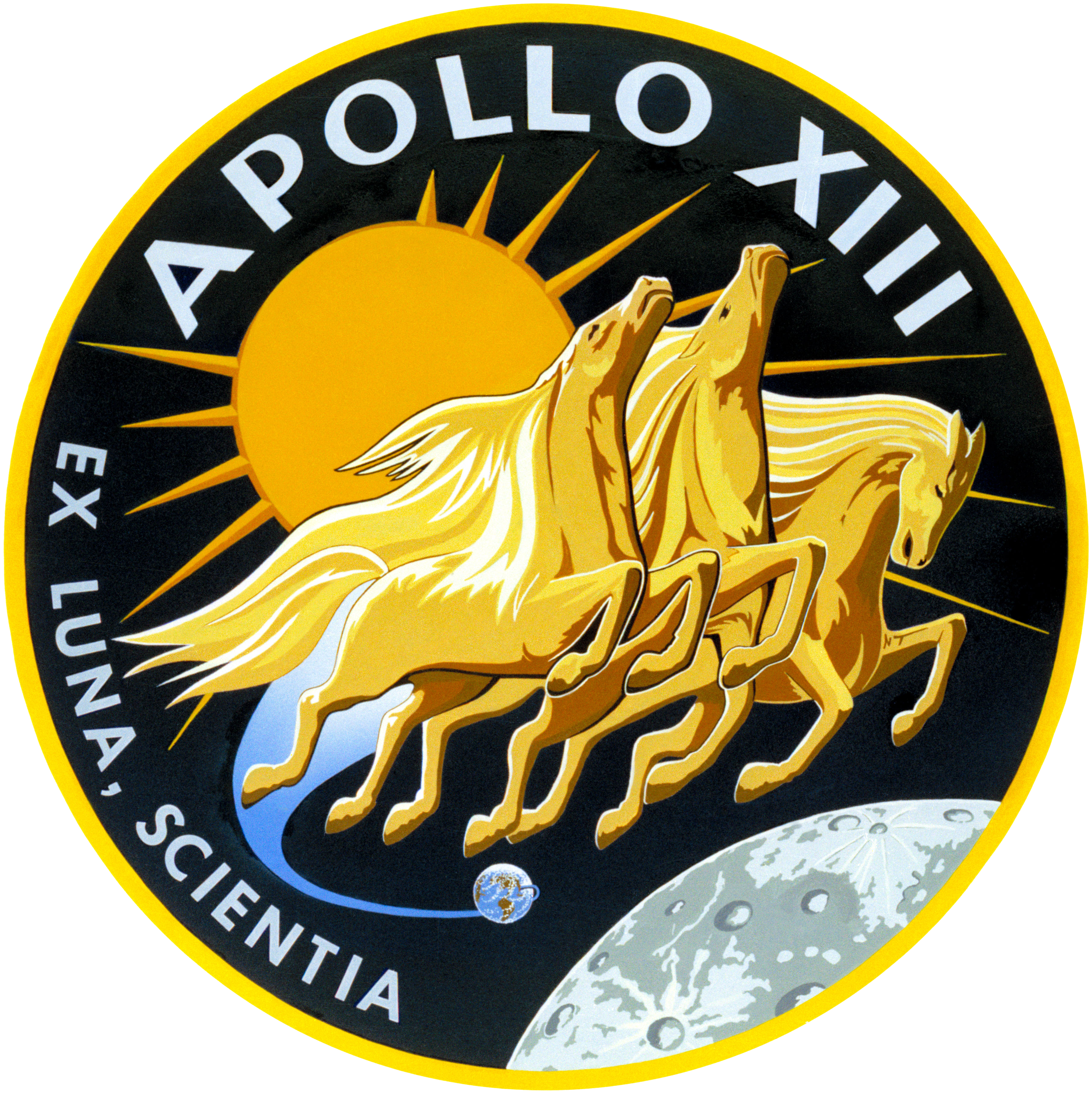 Logo Apollo 13This is the insignia of the Apollo 13 lunar landing mission. The Apollo 13 prime crew will be astronauts James A. Lovell Jr., commander; Thomas K. Mattingly II, command module pilot; and Fred W. Haise Jr., lunar module pilot. Represented in the Apollo 13 emblem is Apollo, the sun god of Greek mythology, symbolizing how the Apollo flights have extended the light of knowledge to all mankind. The Latin phrase Ex Luna, Scientia means "From the Moon, Knowledge." Apollo 13 will be the National Aeronautics and Space Administration's (NASA) third lunar landing mission.